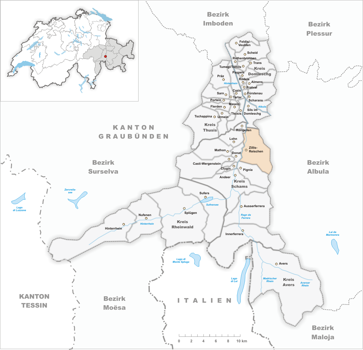 Municipality Zillis-Reischen